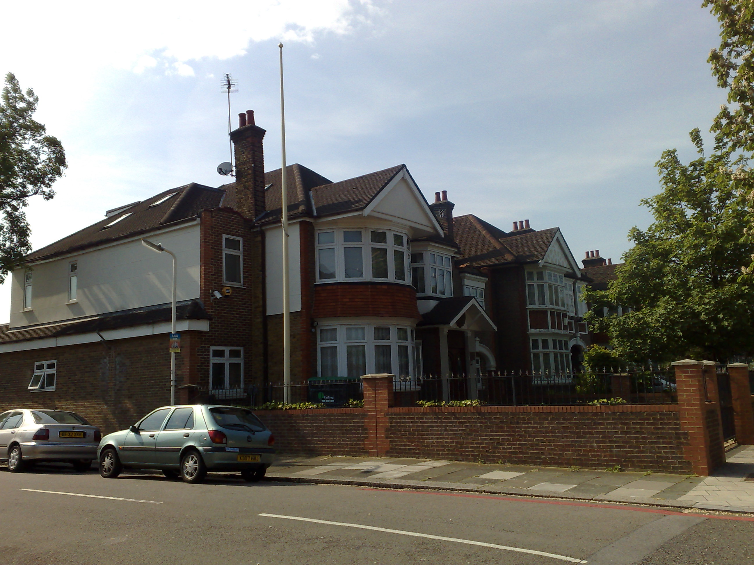 This house is the North Korean embassy... at the junction of Baronsmede and Gunnersbury Avenue in Ealing